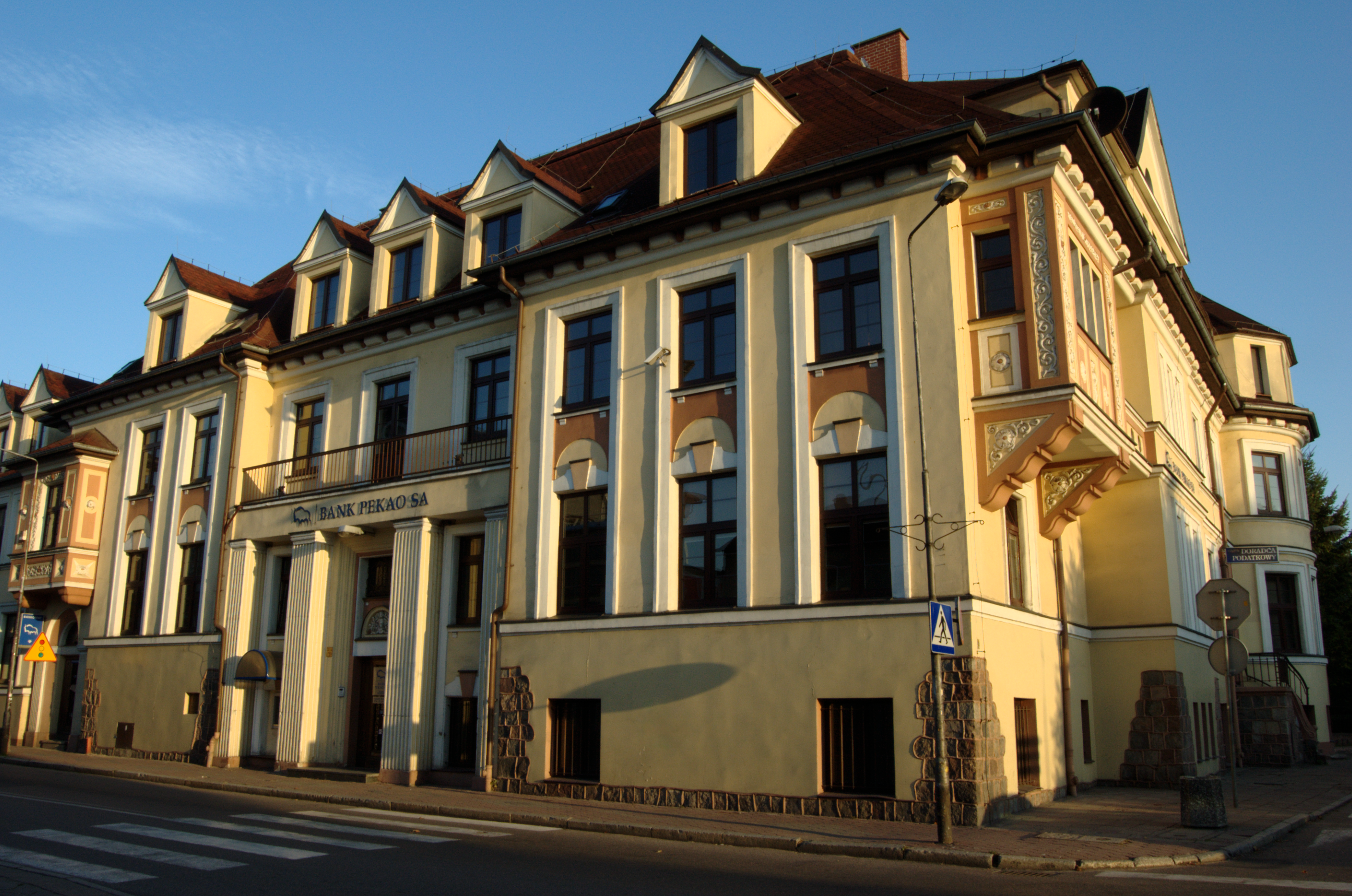 Bank building from 1900 Wałcz, Bankowa 3/5 sreet